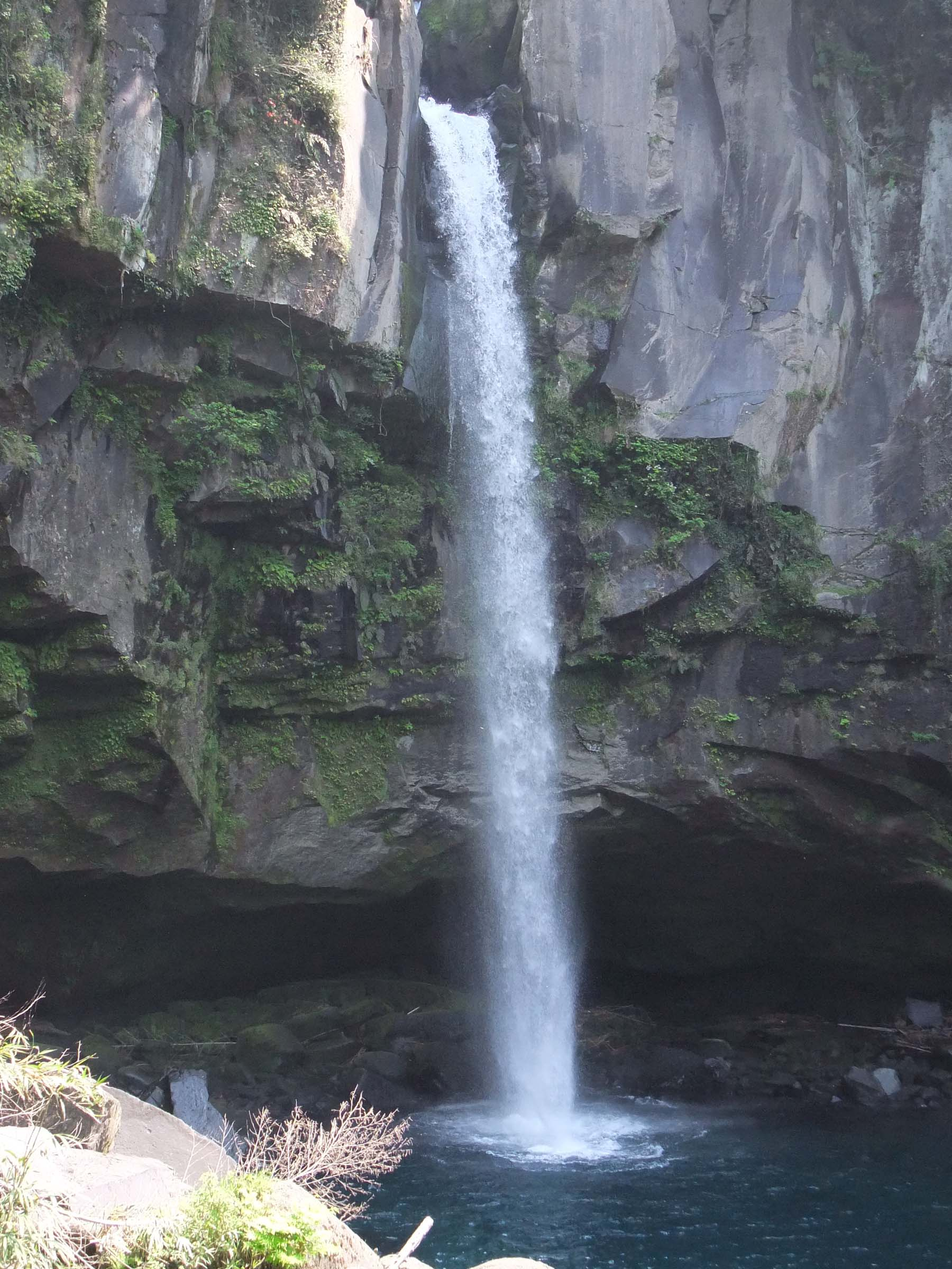 Inukai no Taki